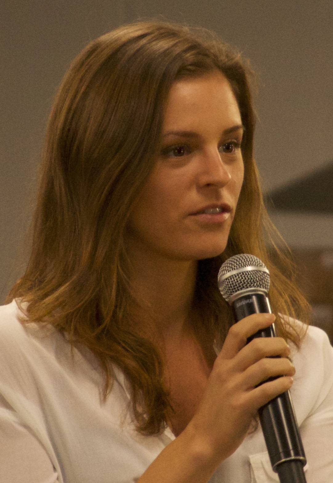 The 2013 2013 Syfy Channel Press Day